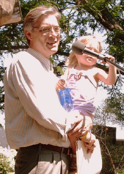 Timothy J. Penny holding his granddaughter while speaking at the 150th anniversary of the Fremont Store in rural Winona County, Minnesota